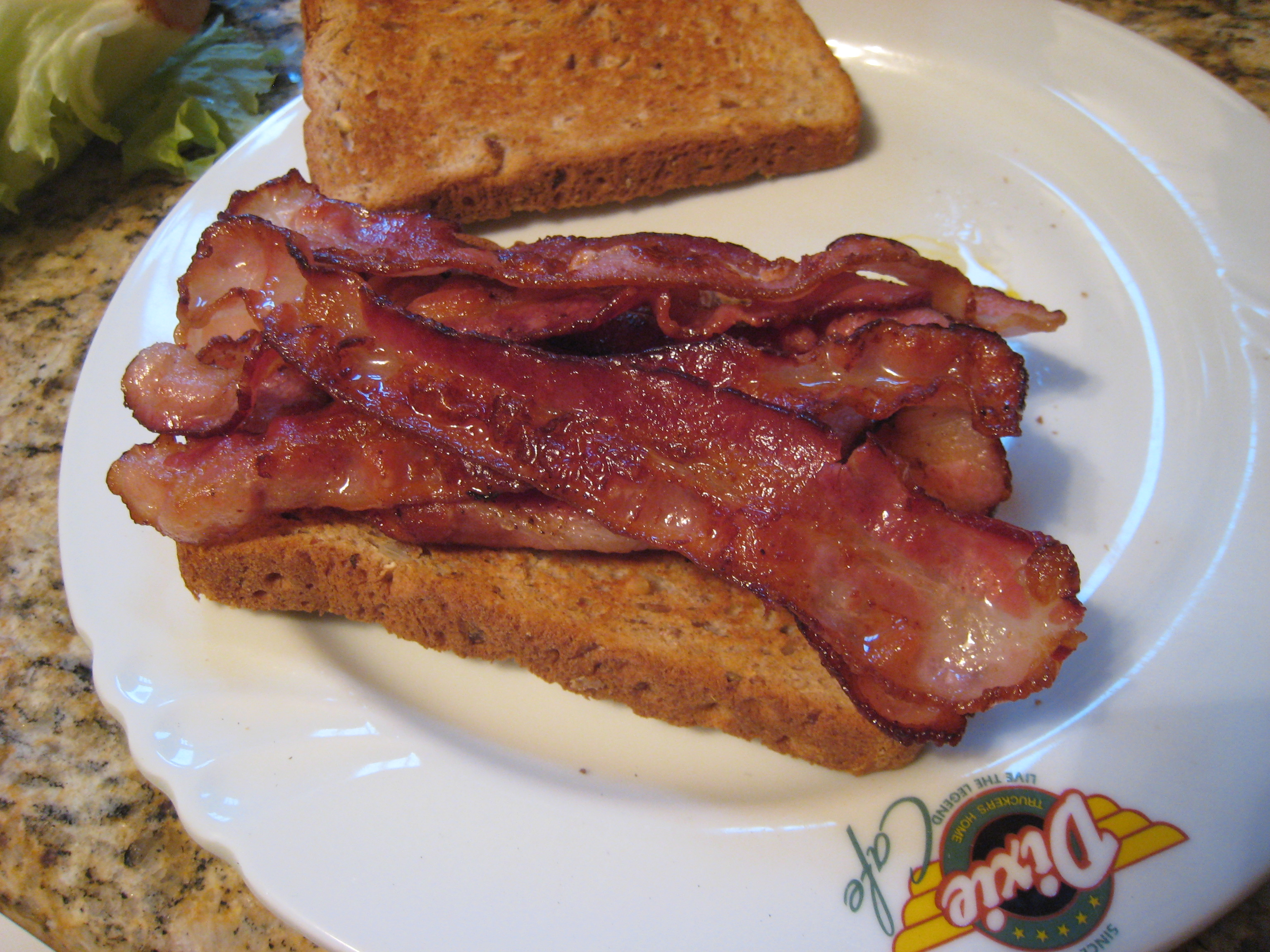 The Dixie Travel Plaza, Dixie Truck Stop or Dixie Trucker's Home in McLean was established by J.P. Walters and John Geske in 1928 on old US Route 66 in Illinois as a small sandwich stand in a truck mechanic's garage. This section of U.S. Route 66 is now part of Interstate 55.